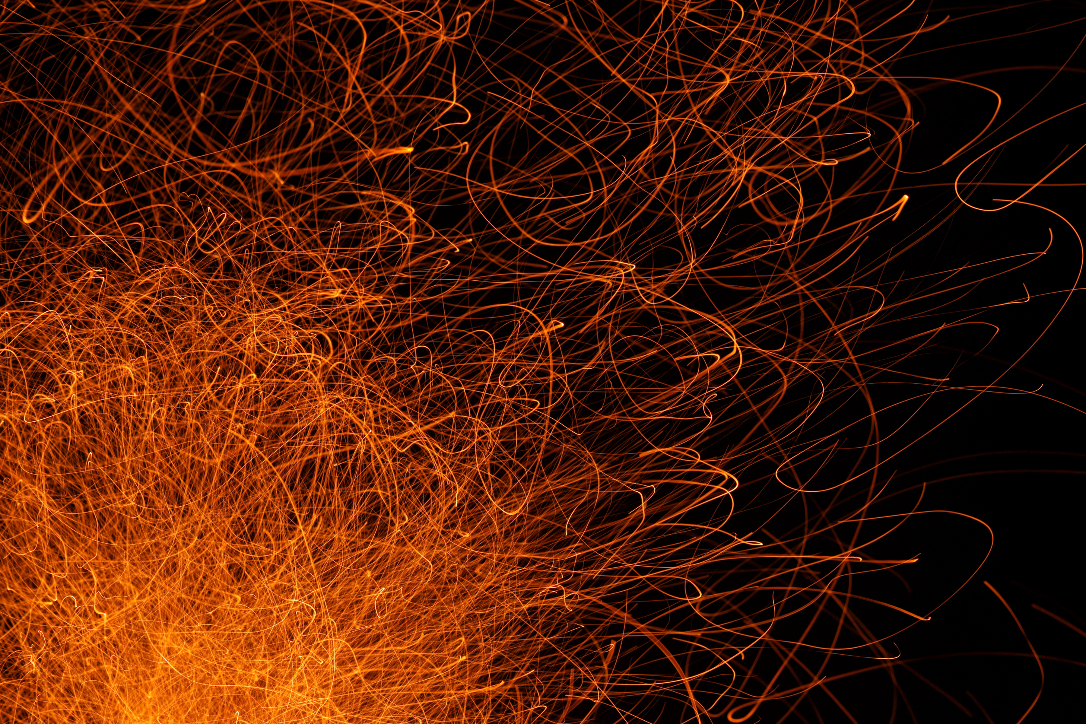 Campfire with sparks in Anttoora, Finland.